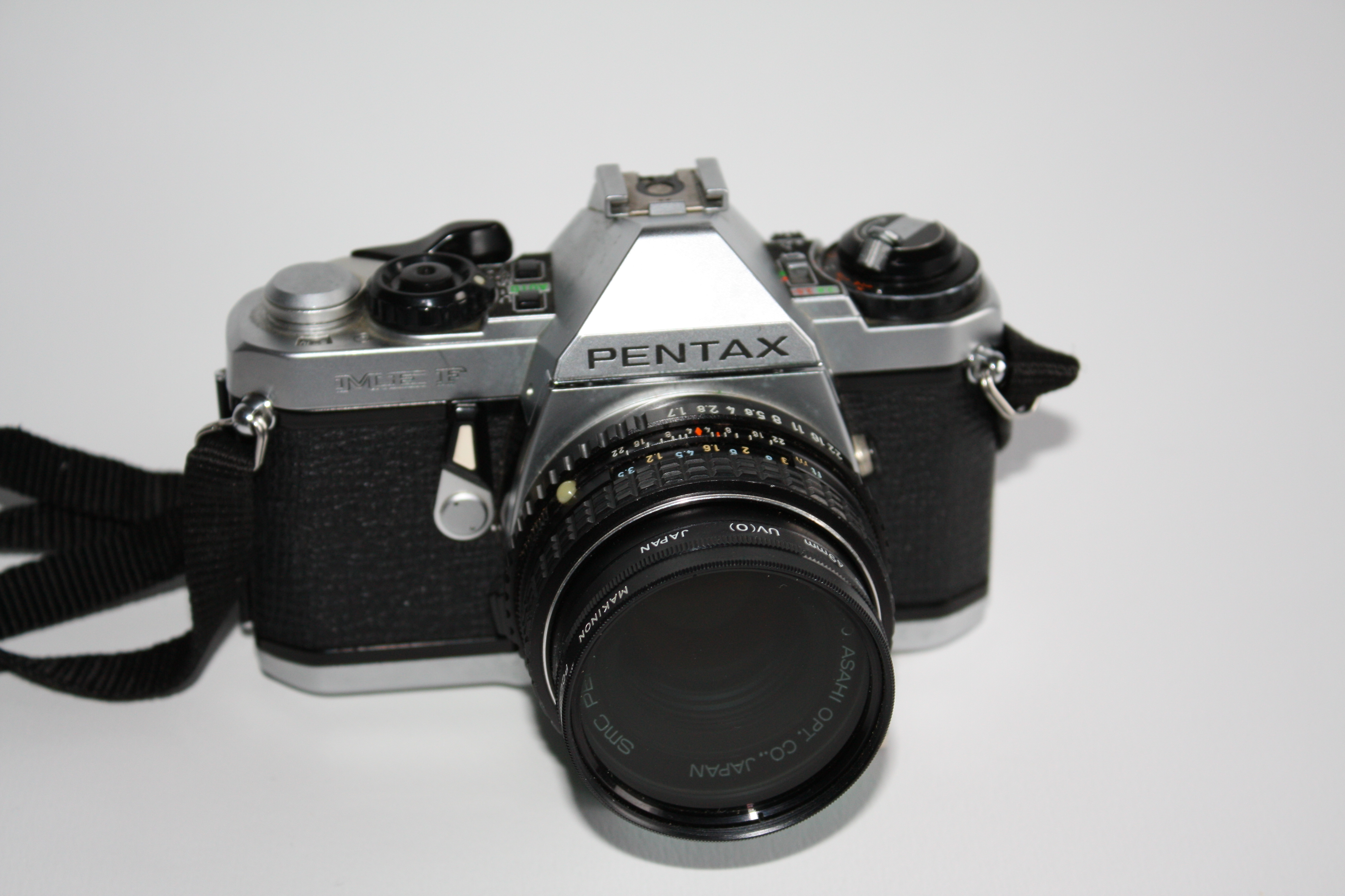 Pentax ME F camera with default lens